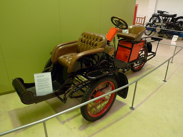 Hadn't seen one of these before. A tandem-arrangement, two-passenger, three-wheeler. London to Edinburgh in 1905 non-stop.